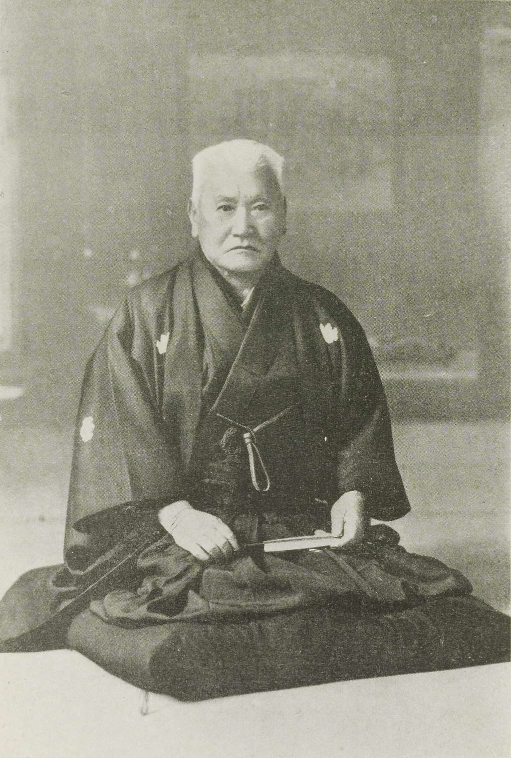 Portrait of Kinpara Meizen (金原明善, 1832 – 1923)